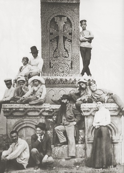 The painter Martiros Sarian (second from bottom left) pictured beside a khatchkar at the Armenian monastery of Sanahin in 1902.